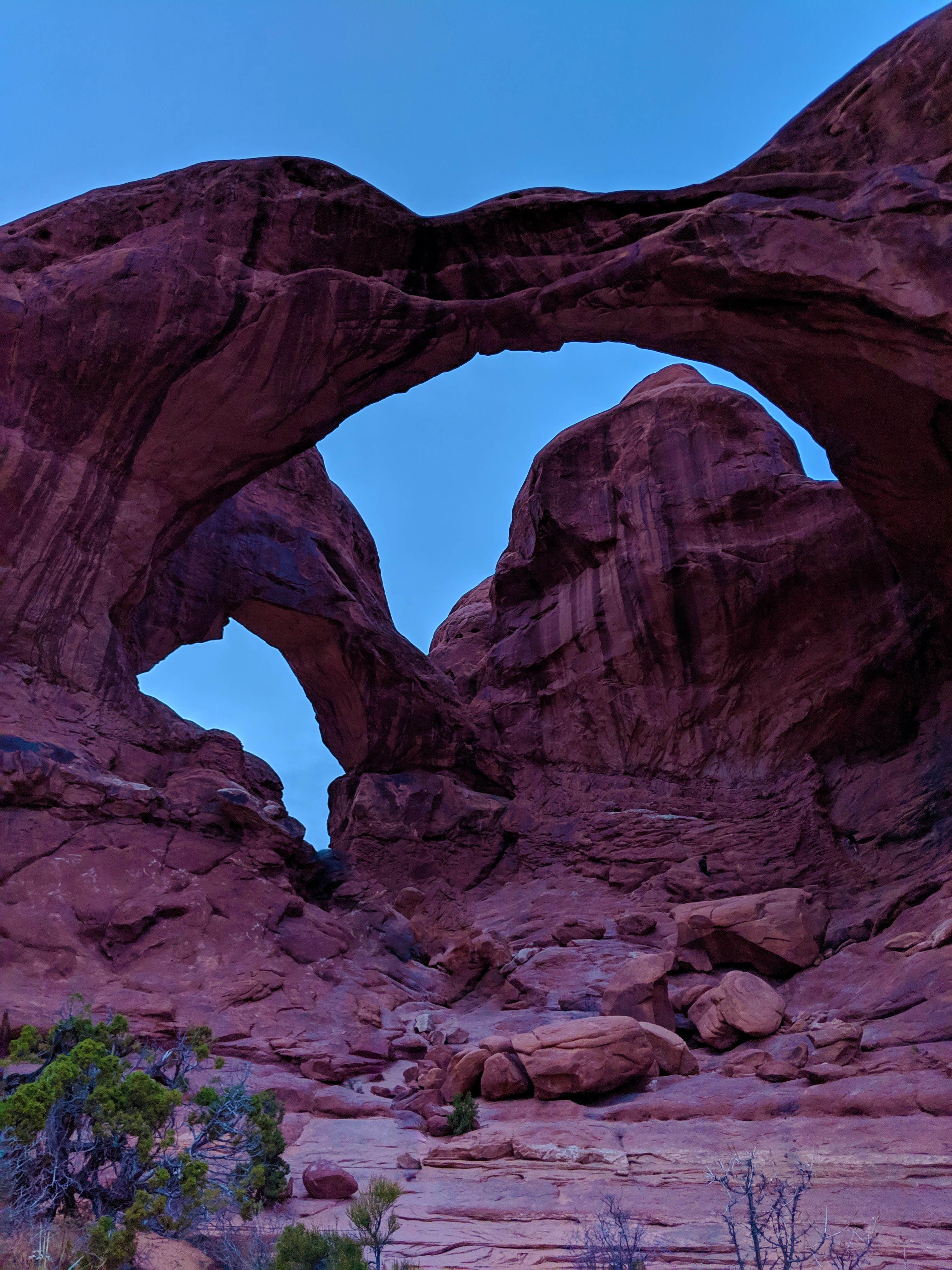 Double Arch at sunset